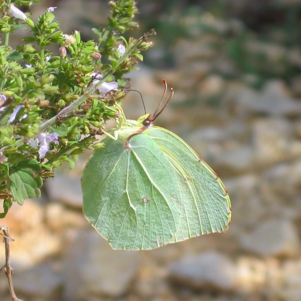 Gonepteryx cleopatra